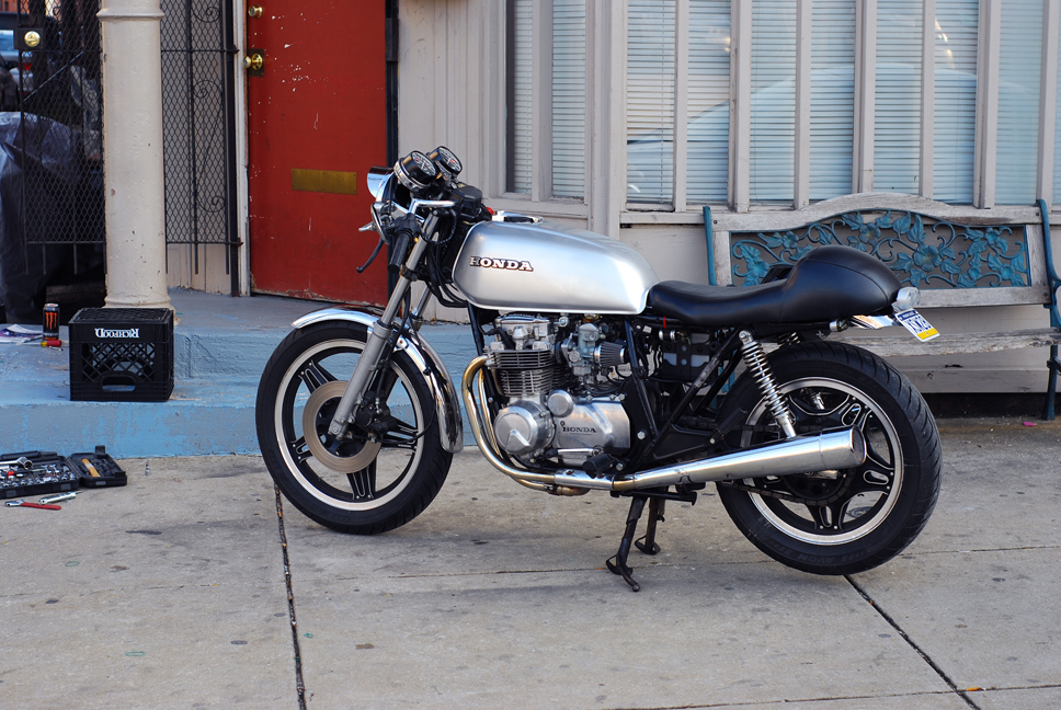 1979 honda cb650 cafe racer